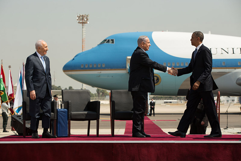 Israeli President Shimon Peres watches Israeli Prime Minister Binyamin Nitanyahu greeting United States President Barack Obama at Ben Gurion International Airport in Tel Aviv on 20 March 2013.